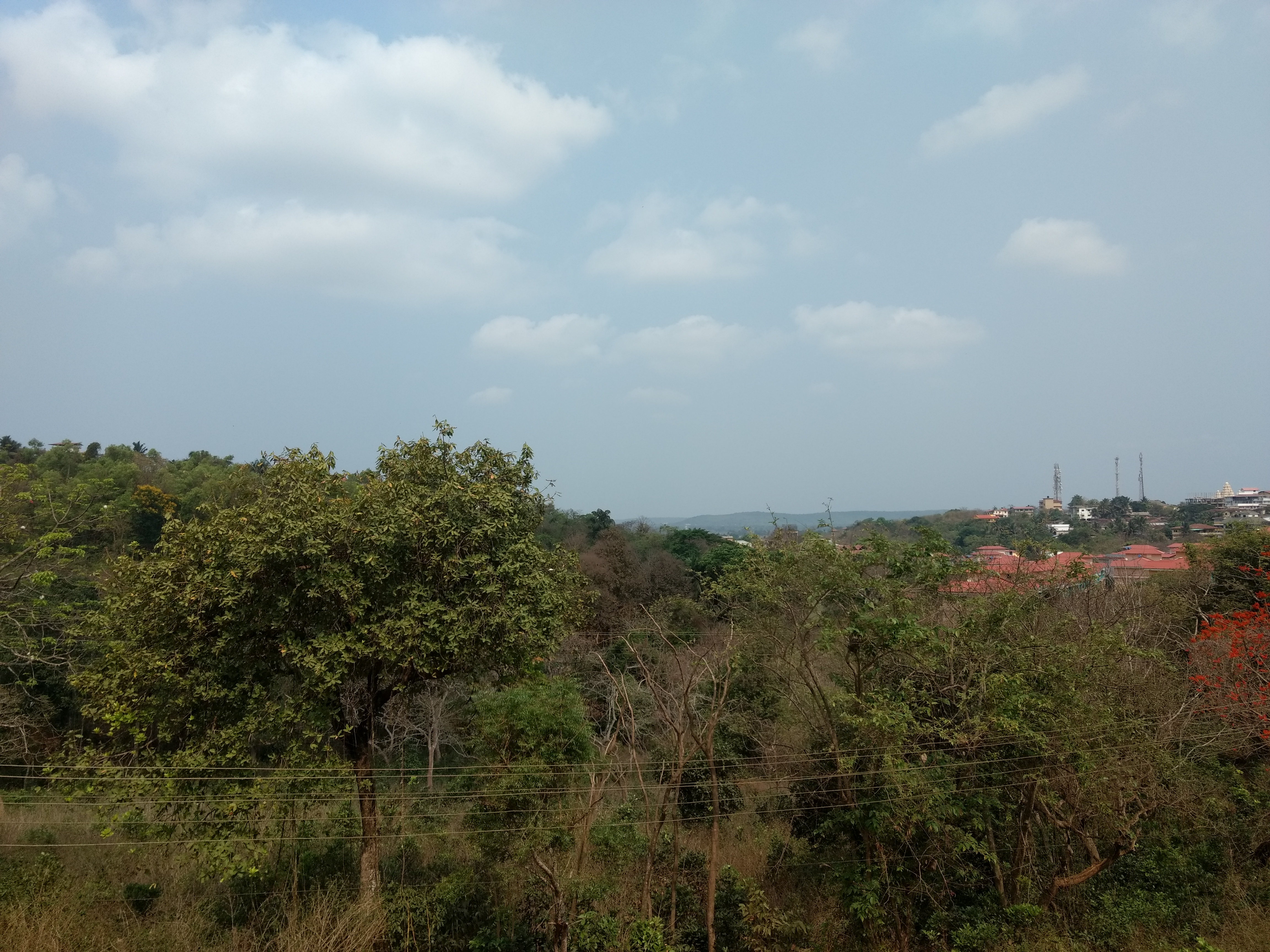 Slope to Bardez, Goa, India